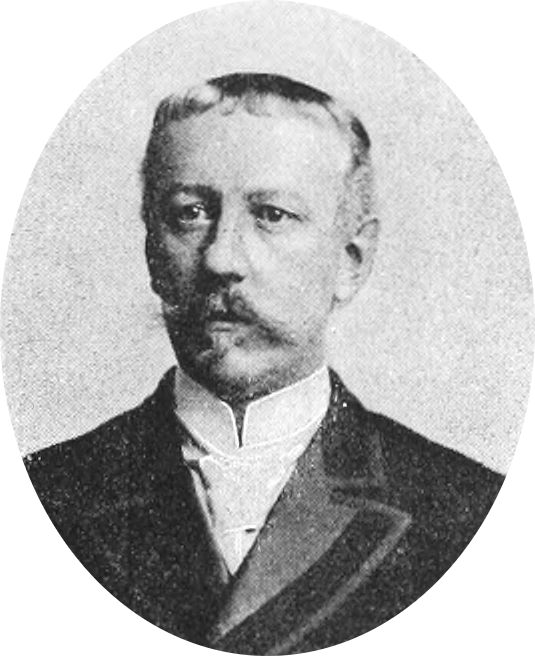 Edmund Friedrich Gustav von Heyking